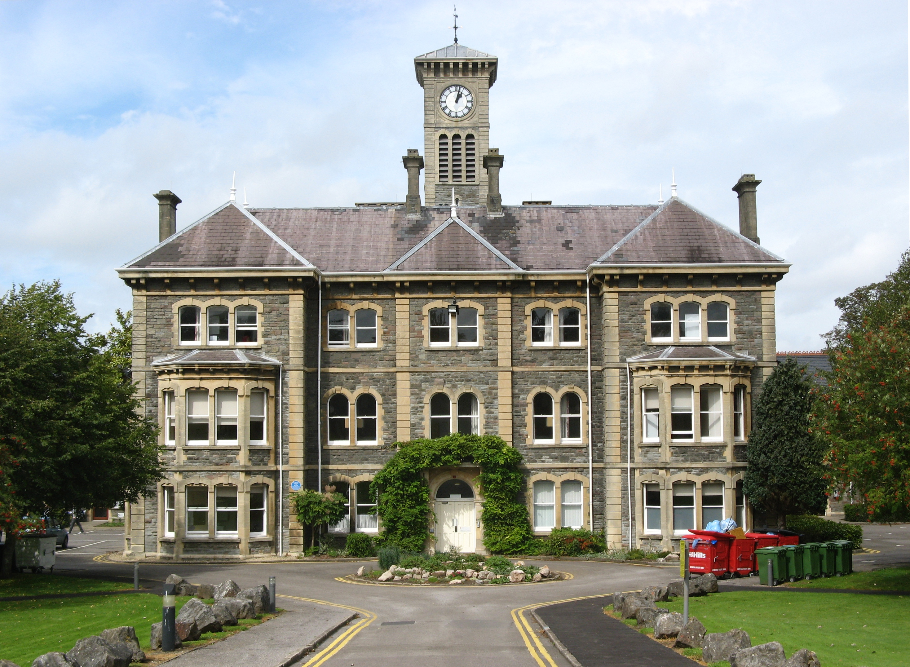 The main building of the former Glenside Hospital, Bristol. Now part of the School of Health and Social Care at the University of the West of England.